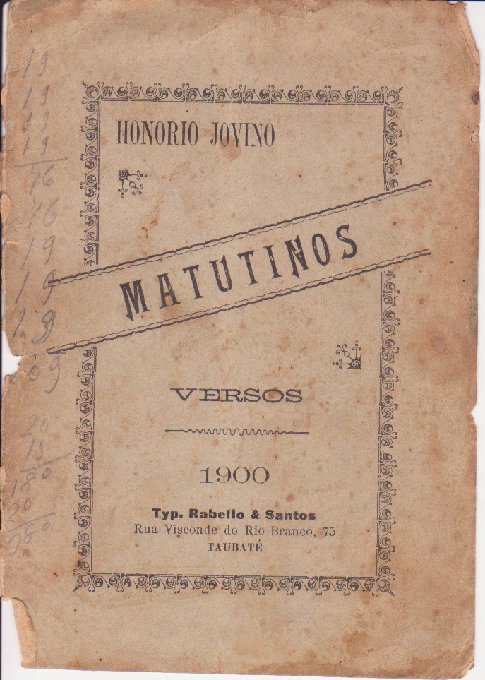 Cover of a book